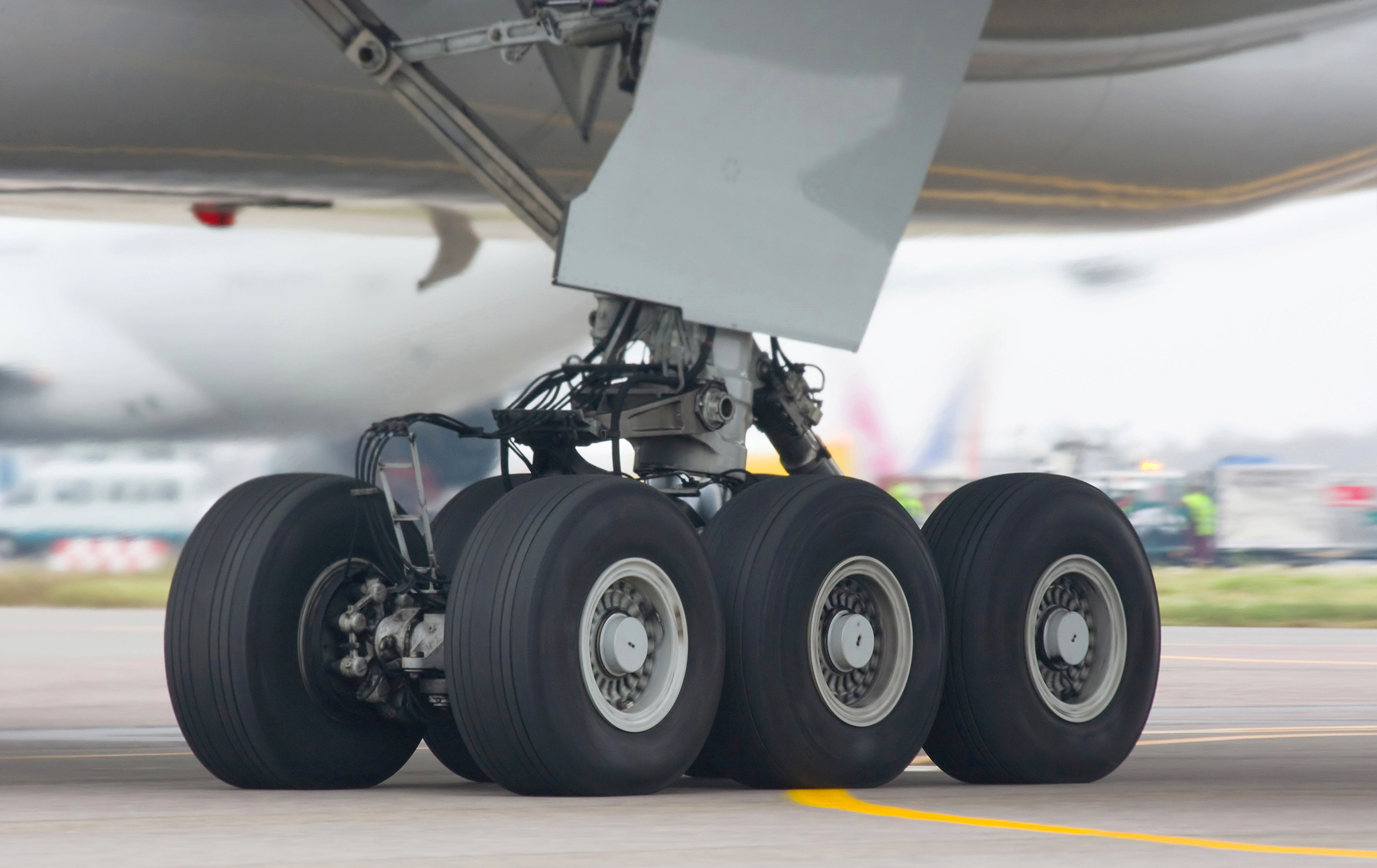 Boeing-777-300 chassis